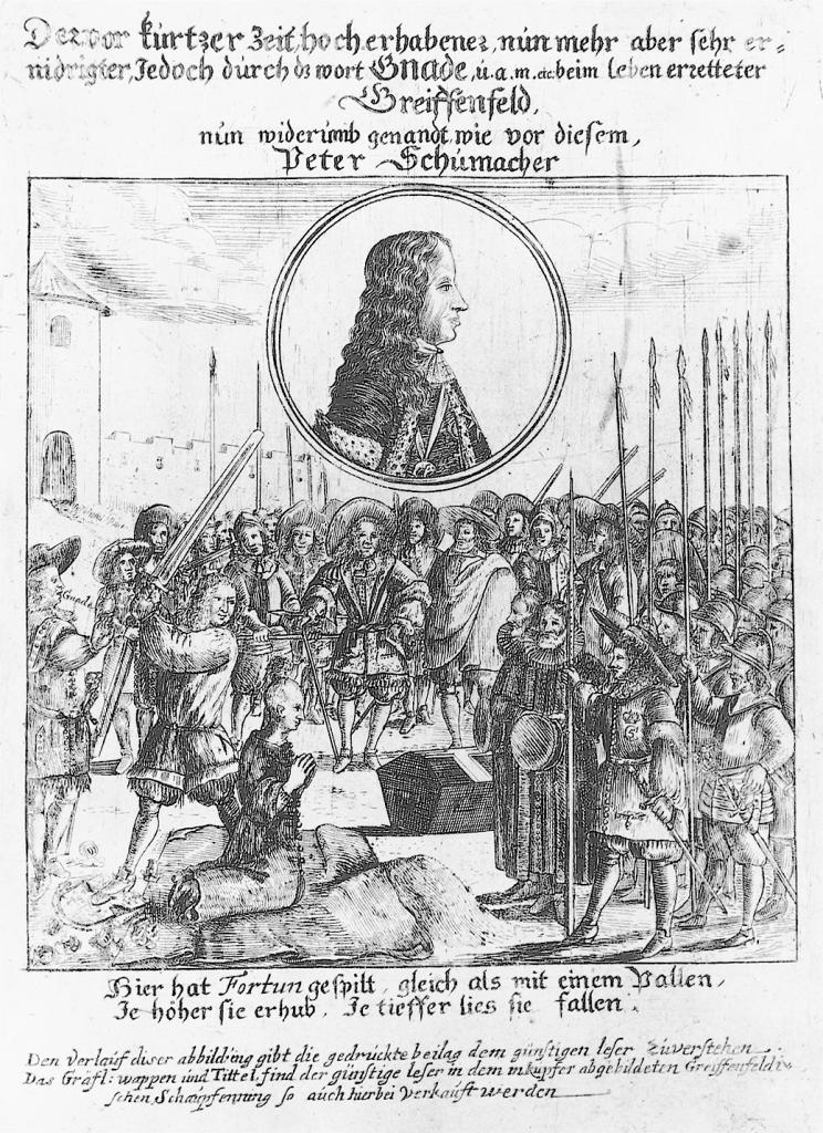 Peder Griffenfeld on 6 June 1676 at Kastellet in Copenhagen when he is pardoned on the scaffold, at the very moment when the axe was about to descend, and his sentence is commuted to life-long imprisonment.